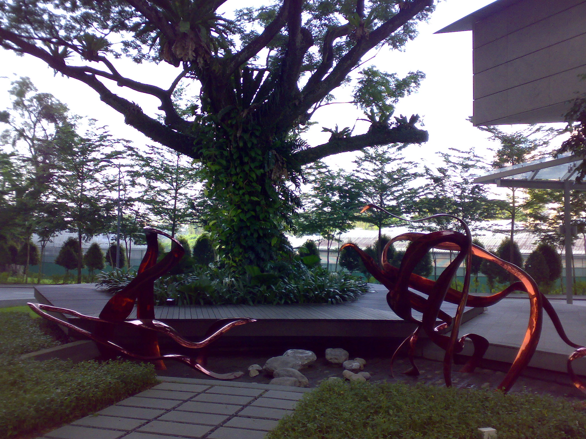 Sculpture "SARS Inhibited" by Mara G. Haseltine (2006), at Biopolis in One-North, Buona Vista, Singapore.